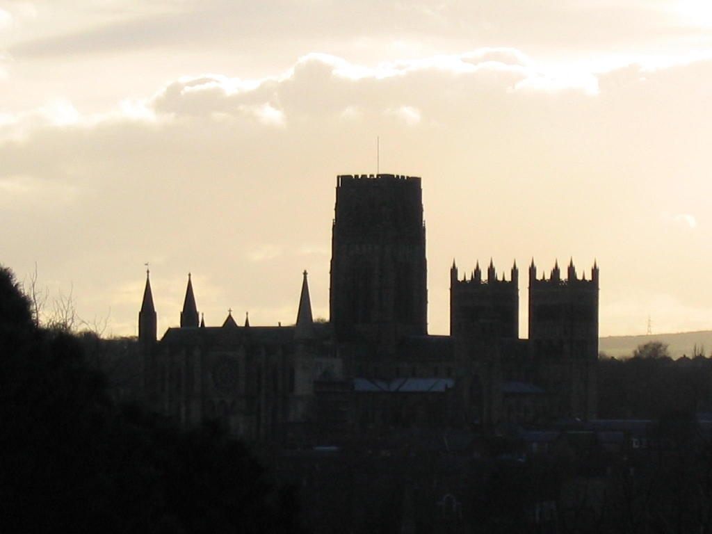 Durham Cathedral, Durham, England, silhouetted against the sunset. Photograph taken by Trilobite, April 2004.